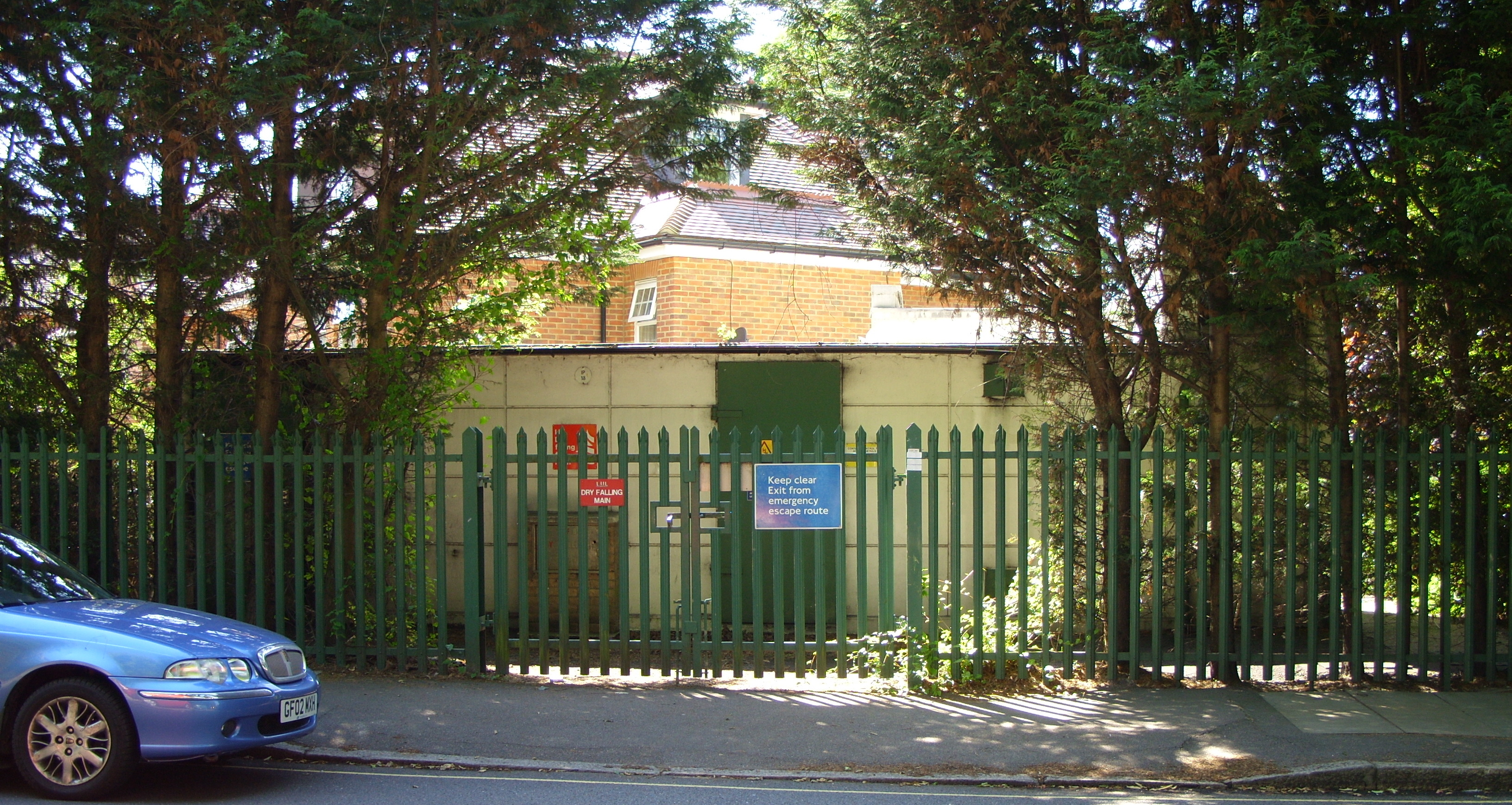 Surface level building at North End abandoned tube station, London